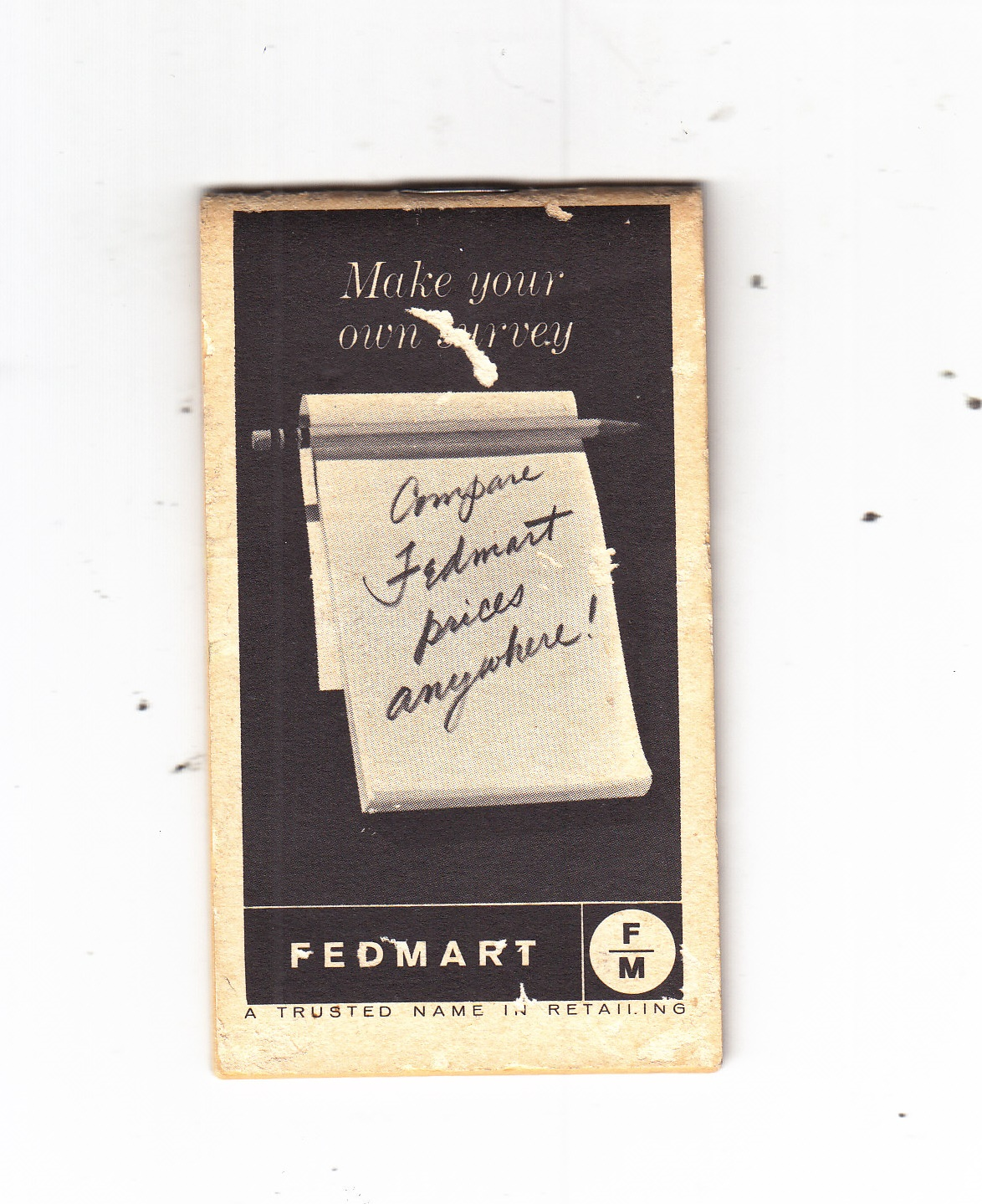 FedMart Make Your Own Survey Notepad circa 1964